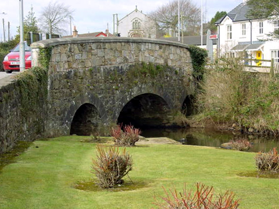 Bridge in Newmills. Looking north towards the bridge over the Torrent River in Newmills village.